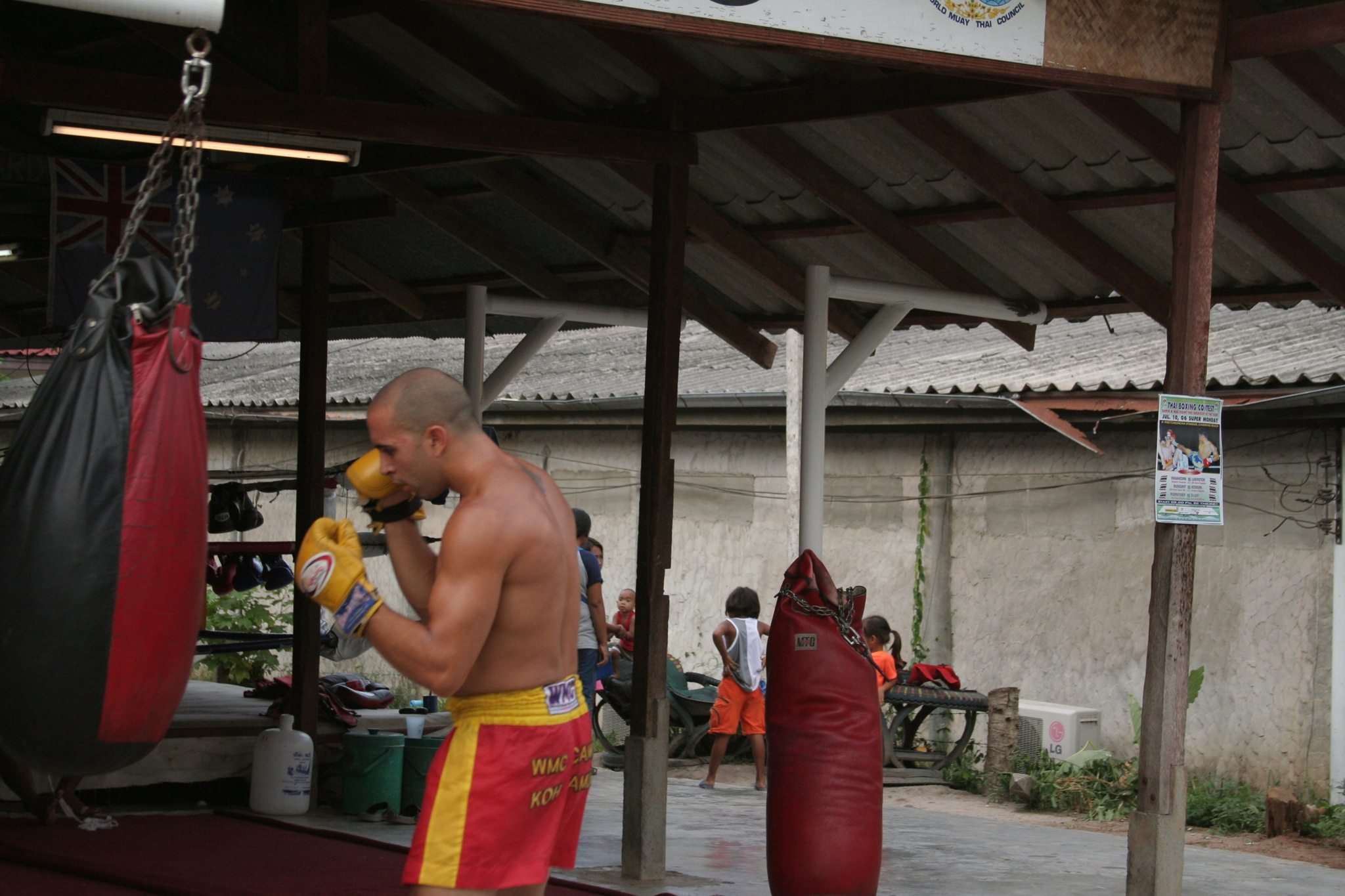 A muay thai fighter "working his hands" on a heavy bag.